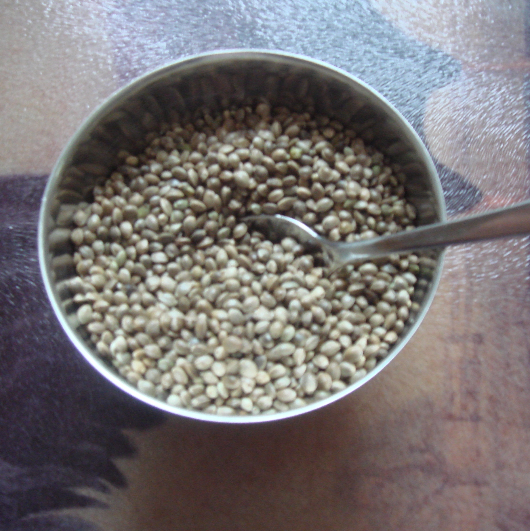 Hemp seeds in a small bowl with teaspoon